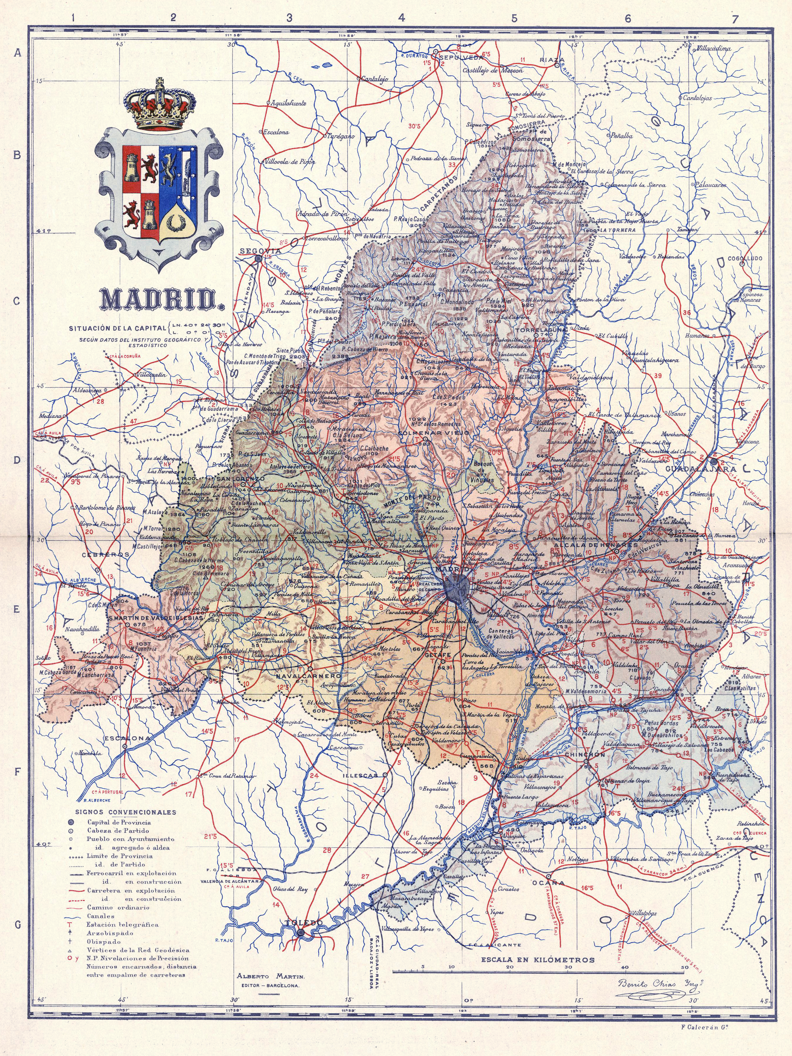 Map of the Province of Madrid, 1919